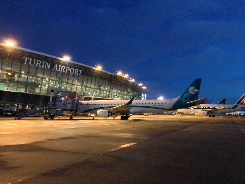 Air Dolomiti E195 at Turin Airport